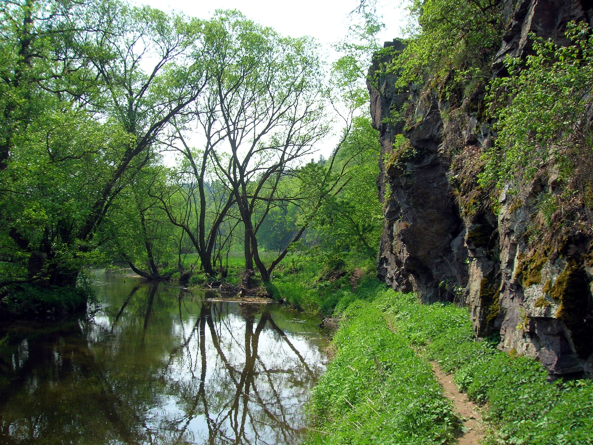 Přibyslavice. Jihlava River near the Kratochvíl's mill